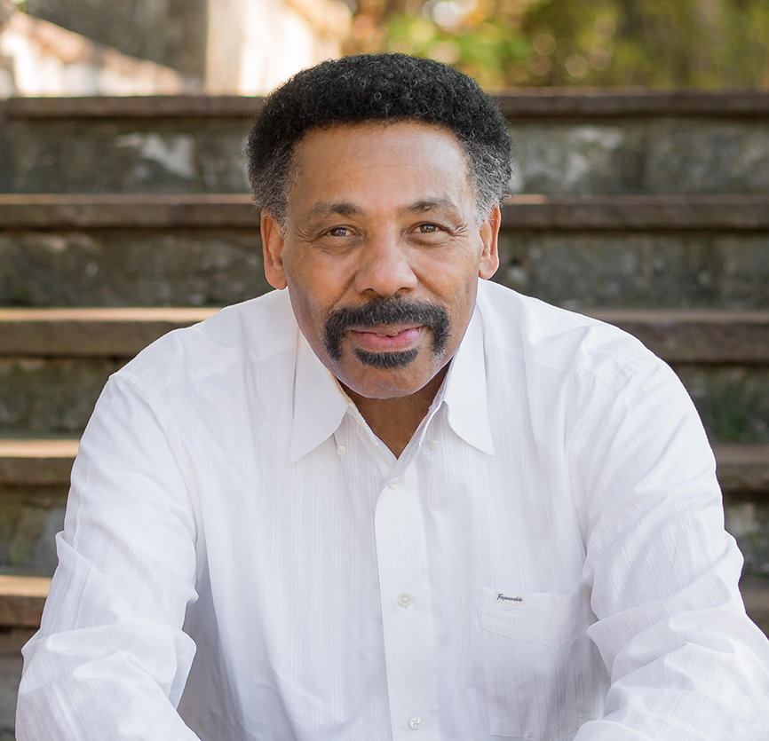 The Urban Alternative